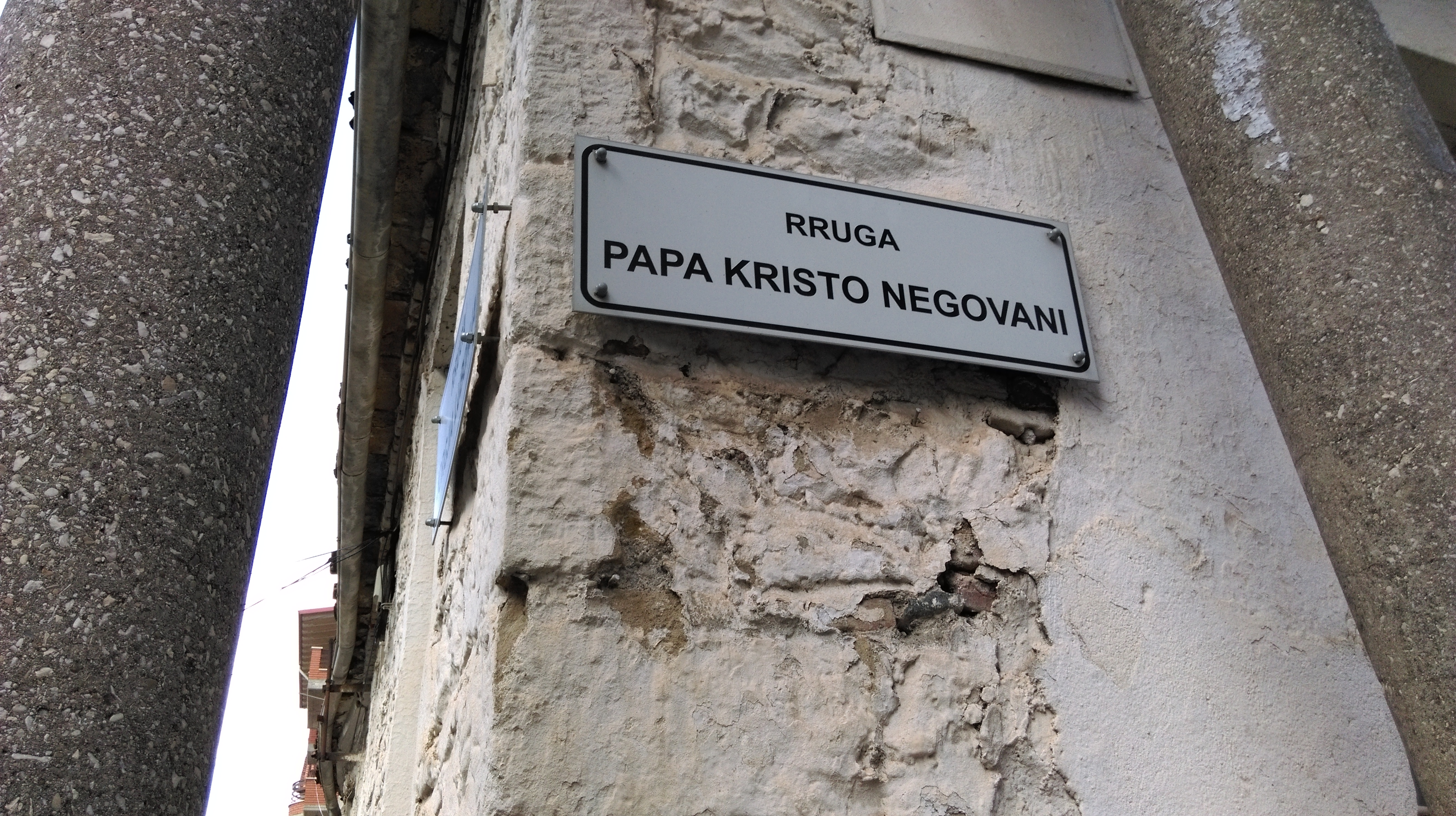 Papa Kristo Negovani street in Korçë